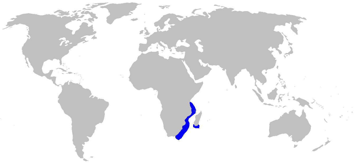 Distribution map for Squatina africana